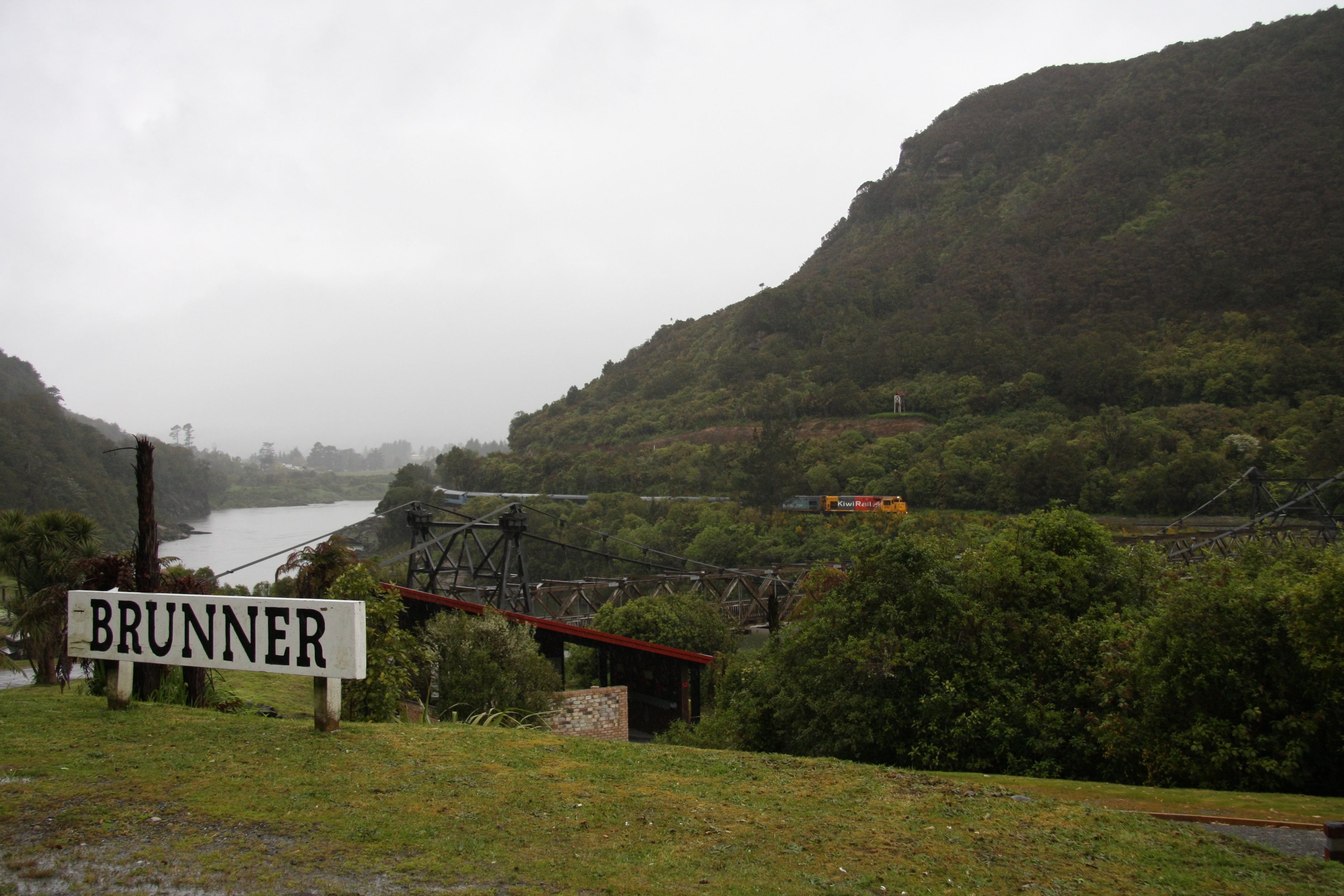 By the 1880s the Brunner mine was producing more coal than any other in New Zealand. This expansion was due, among other things, to the construction of a direct railway network to Greymouth and the Brunner suspension bridge being built in 1876.